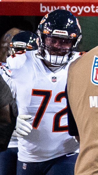 In 2019